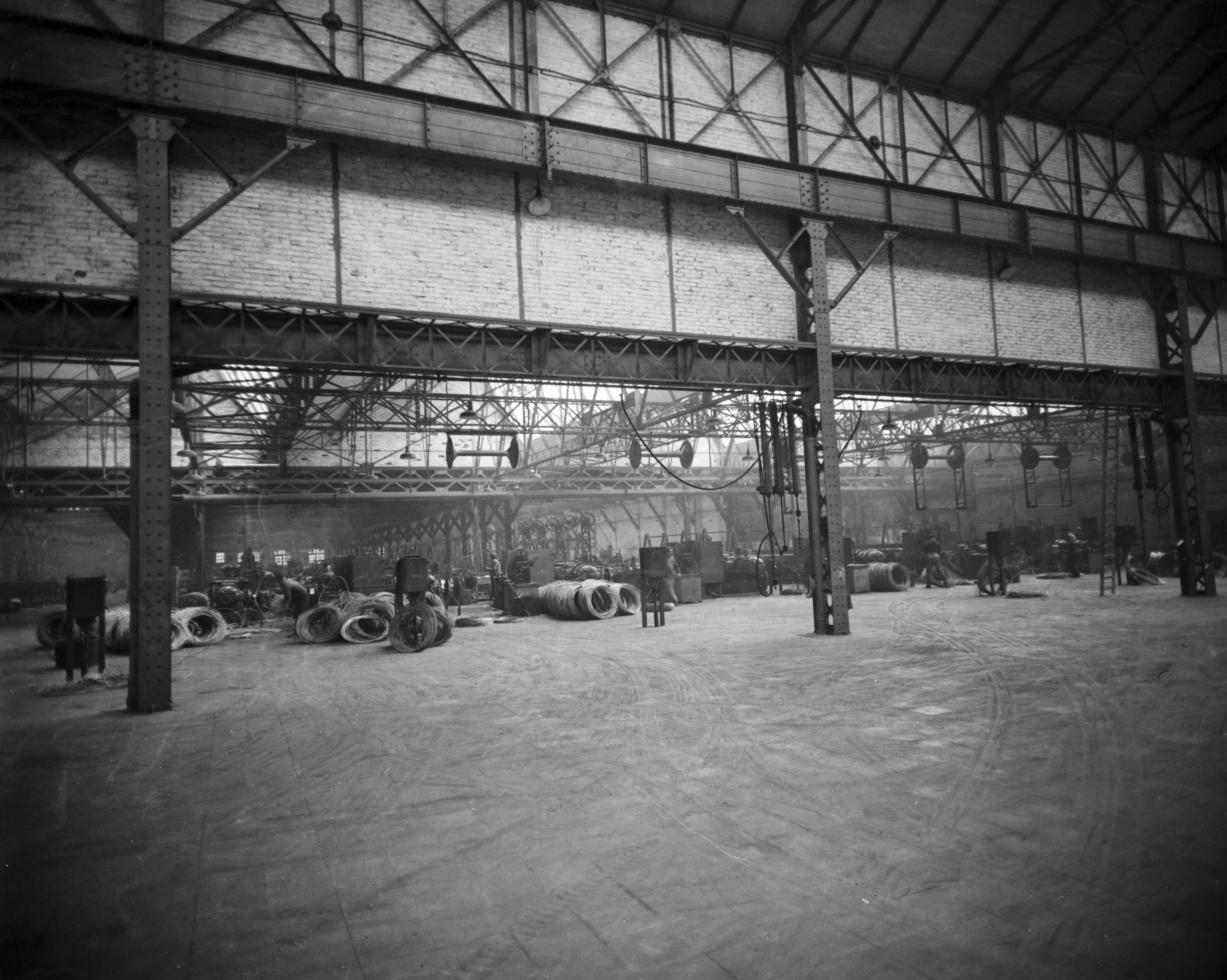 Factory of the Trefileries et Laminoirs du Havre c. 1950